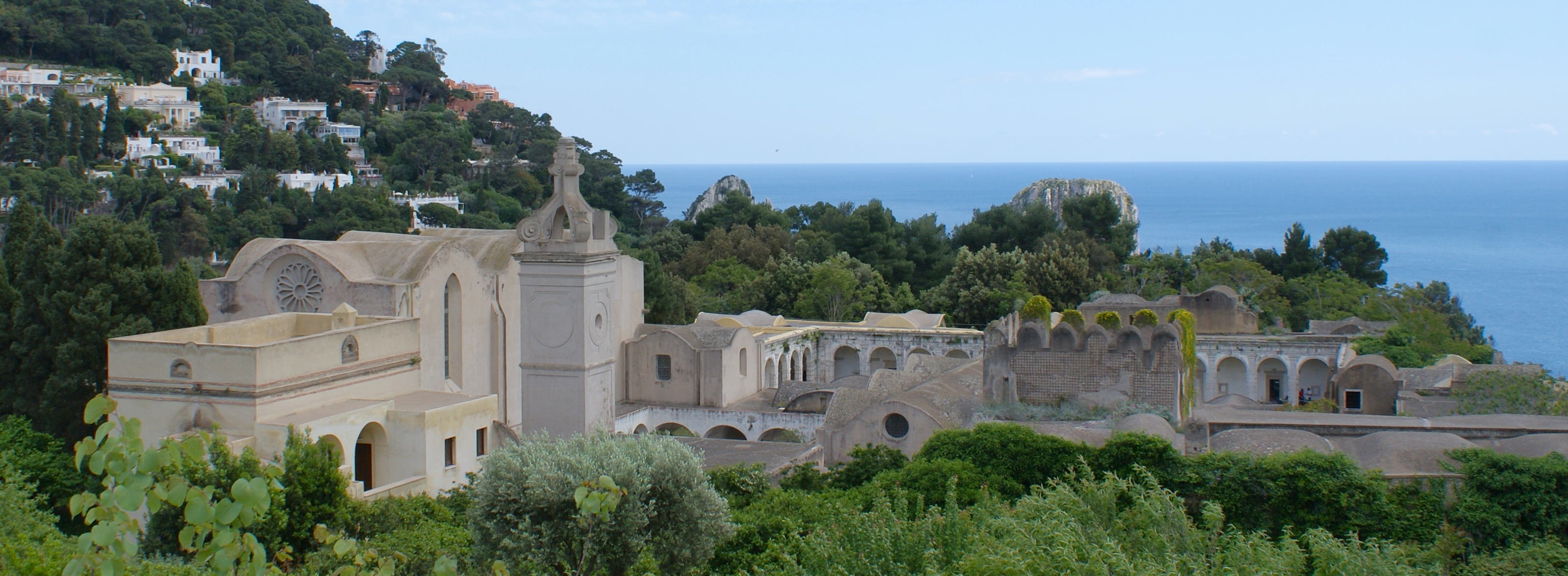 View of Certosa di San Giacomo from the Northwest.